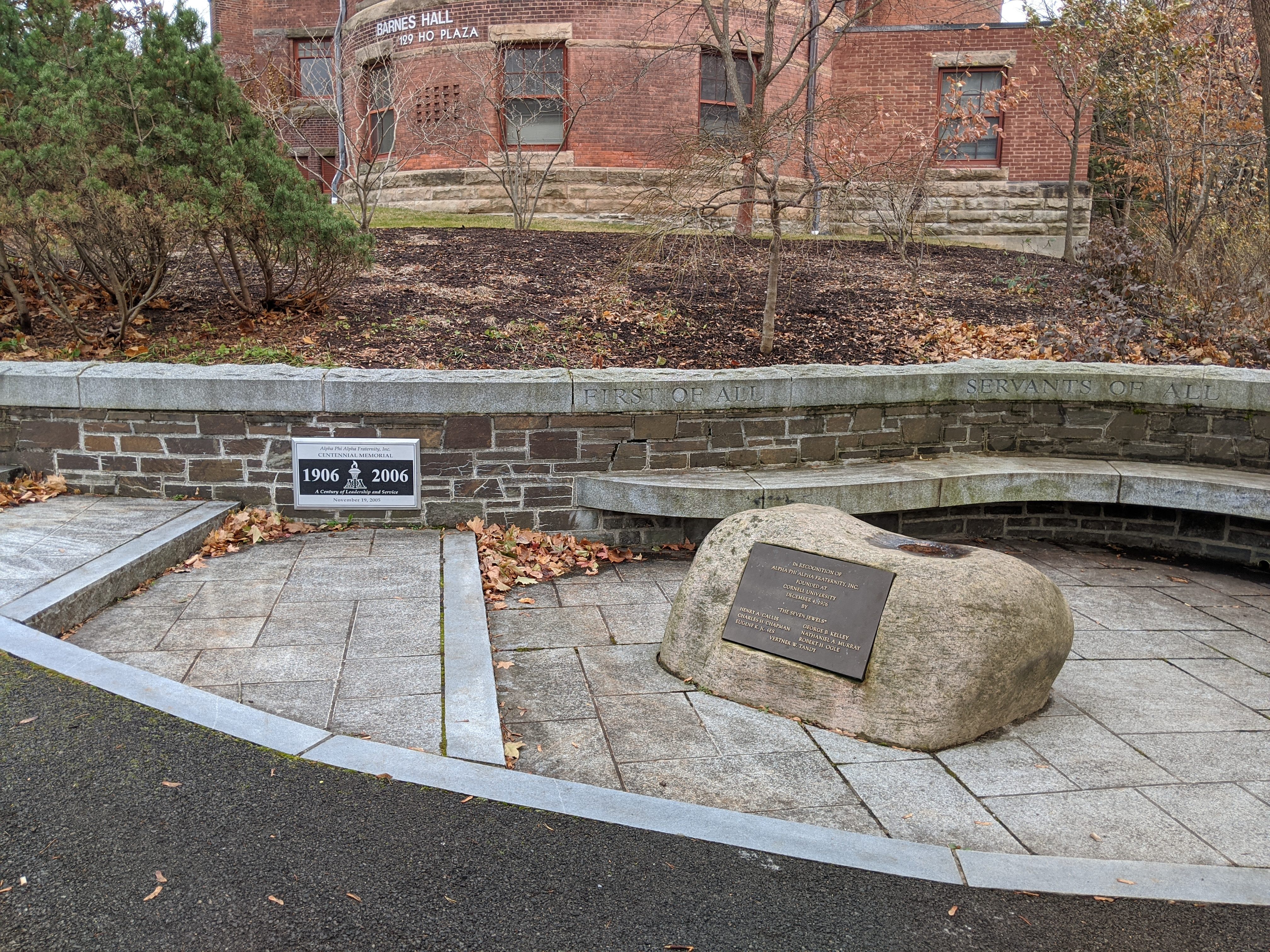 The Bench is in the shape of a J to honor the 7 Jewels. Is is located between Barnes Hall (brick building) and Willard Straight Hall